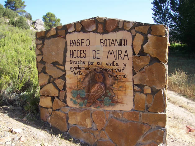 Inicio del paseo botánico Hoces de Mira